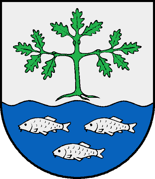 Coat of arms of the municipality Großensee in Schleswig-Holstein, Germany.